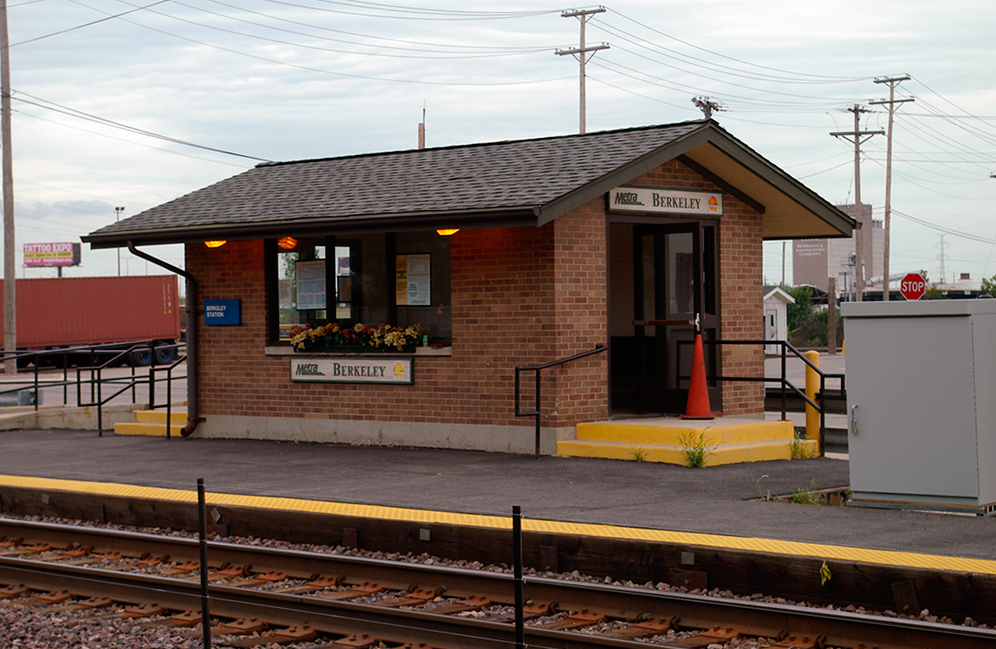 The Berkeley Metra station in Berkeley, Illinois. View looks northwest on July 19, 2010.